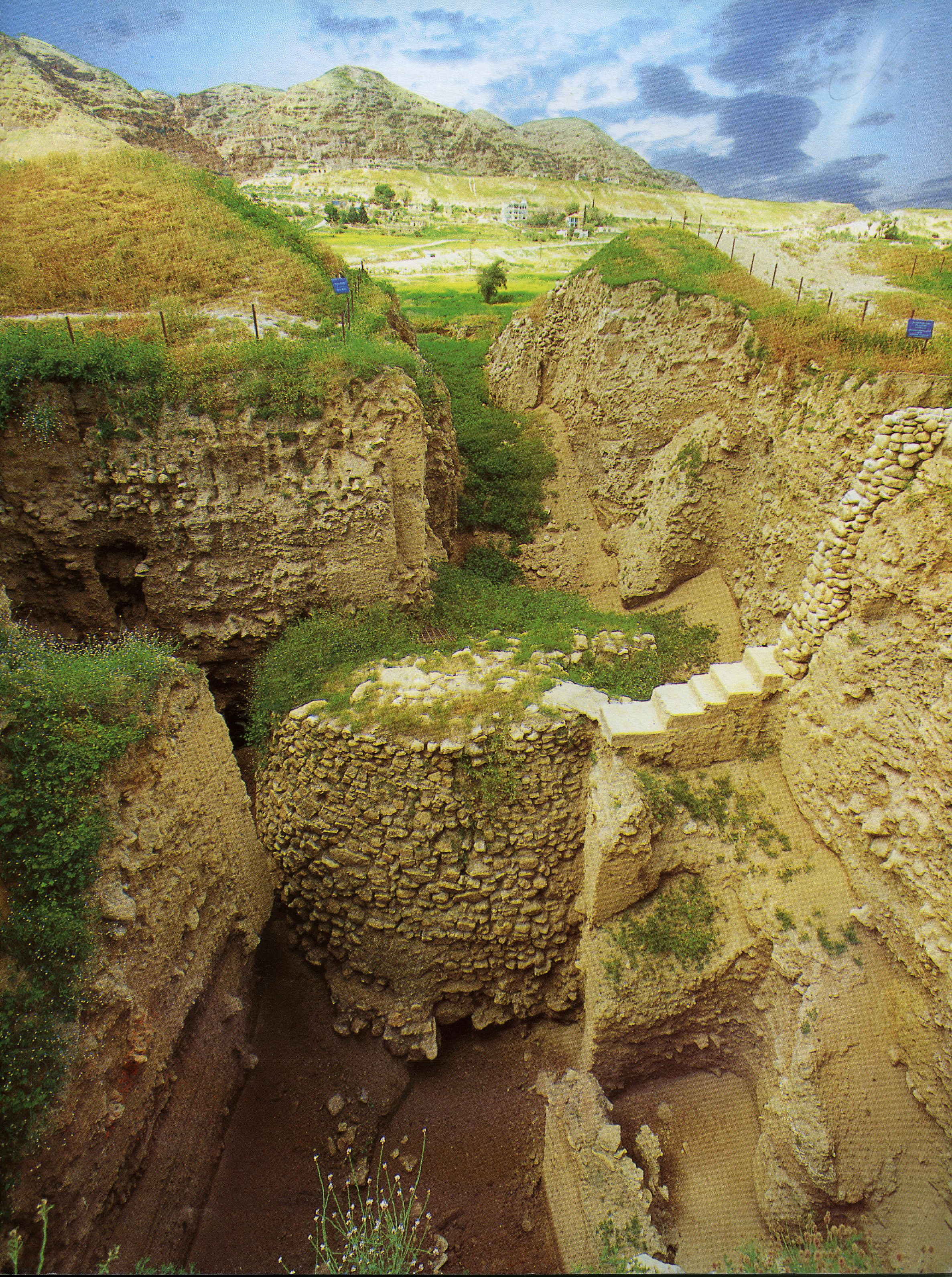 Tel Essultan site